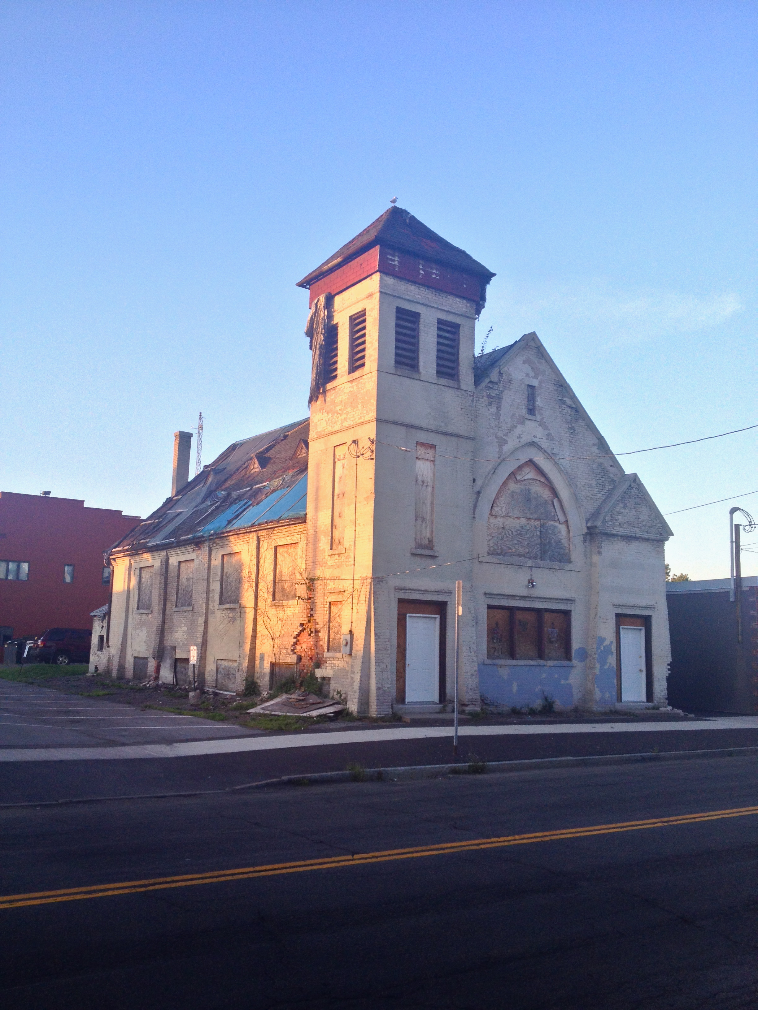 The Structure is abandoned. Funding for renovation has been ongoing effort led by the Syracuse Freedom Trail Organization.